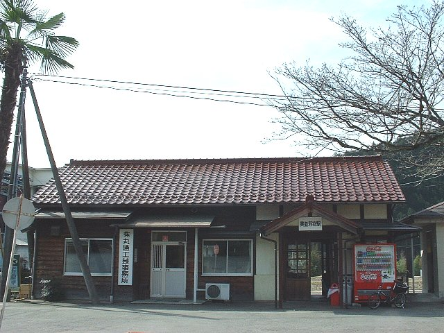 Minami-Kariyasu Station